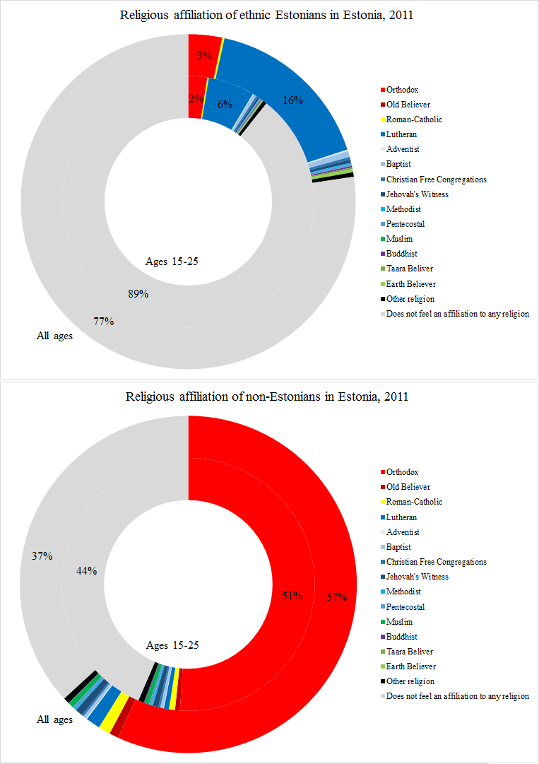 Religious differences between ethnic Estonians and non-Estonians according to the 2011 census